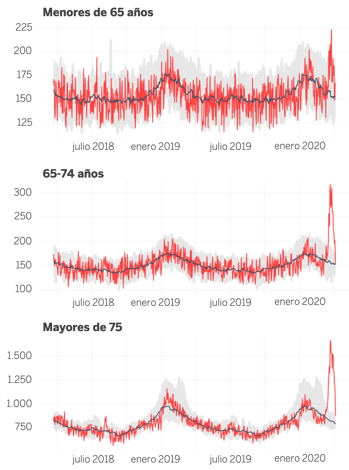 Shows expected mortality (black, with confidence interval in grey) and observed mortality (red).